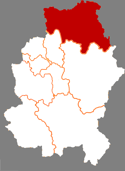 Location of Shulan city in Jilin City, China